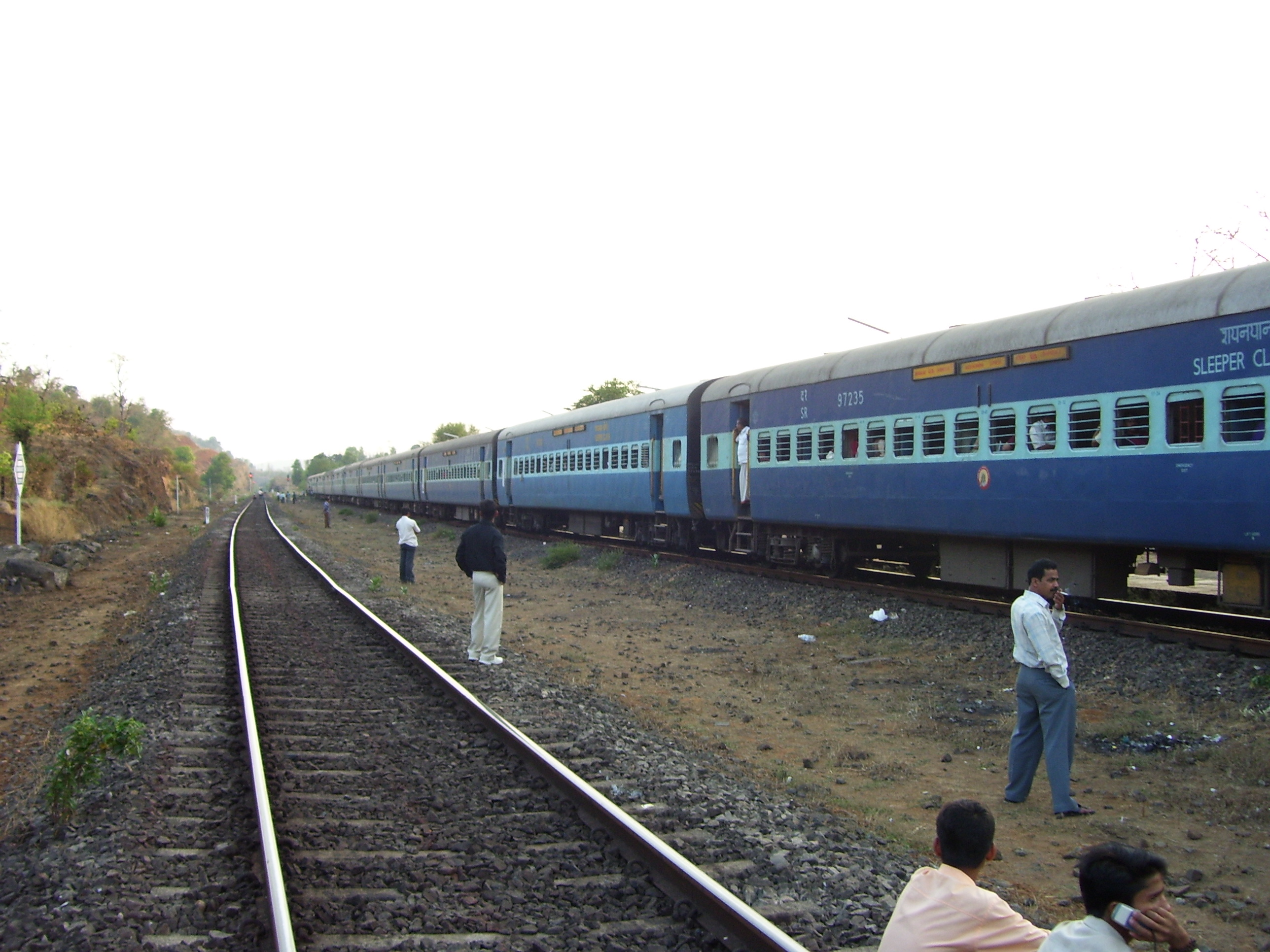 Photo of Matsyagandha Super fast Express train halt at a station.